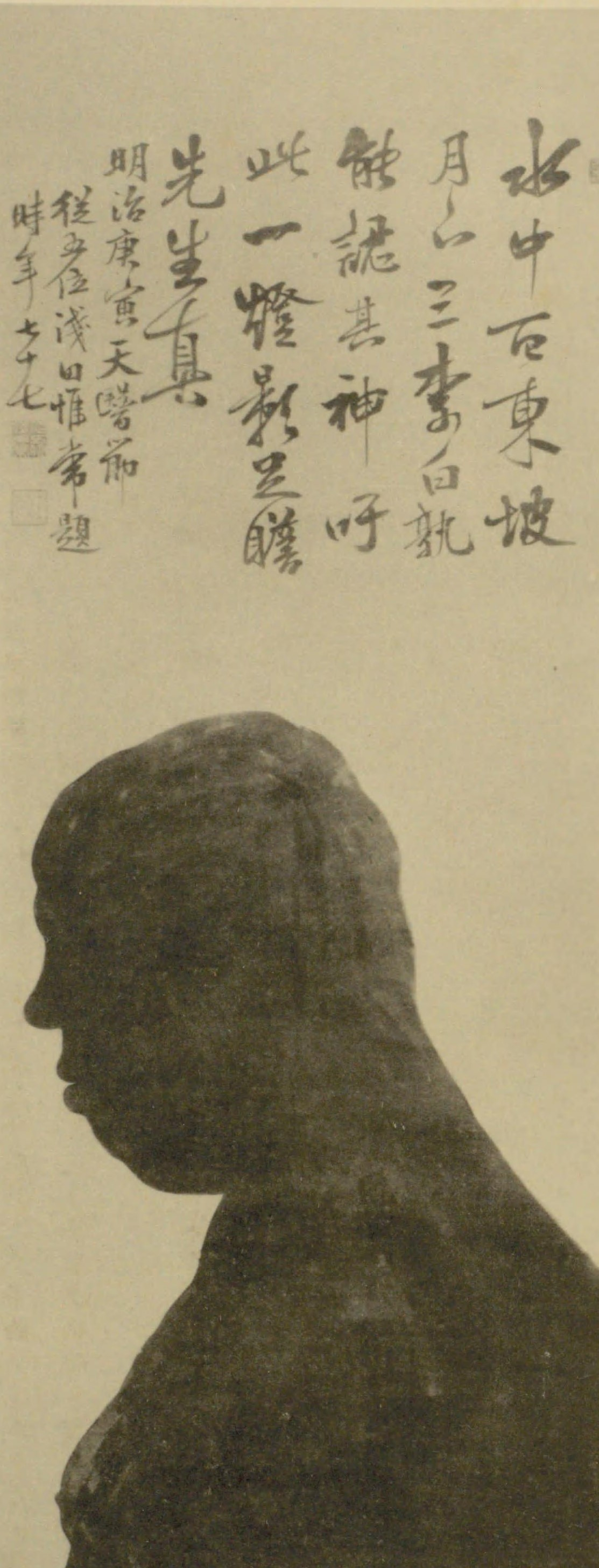 Portrait of Kojima Naokata